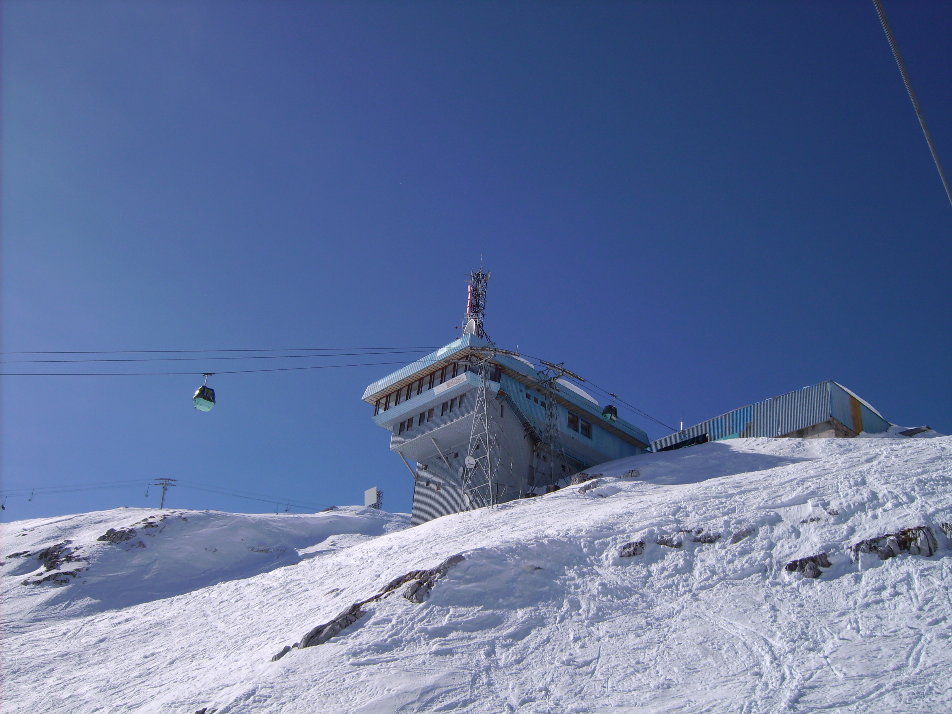 Mountain station of the gondola, Kanin mountain, Slovenia